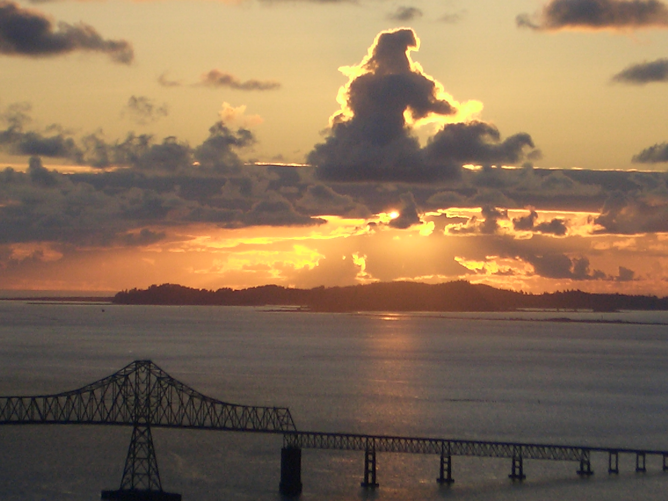 Sunset over the Astoria-Megler Bridge across the Columbia River at Astoria, Oregon, USA.